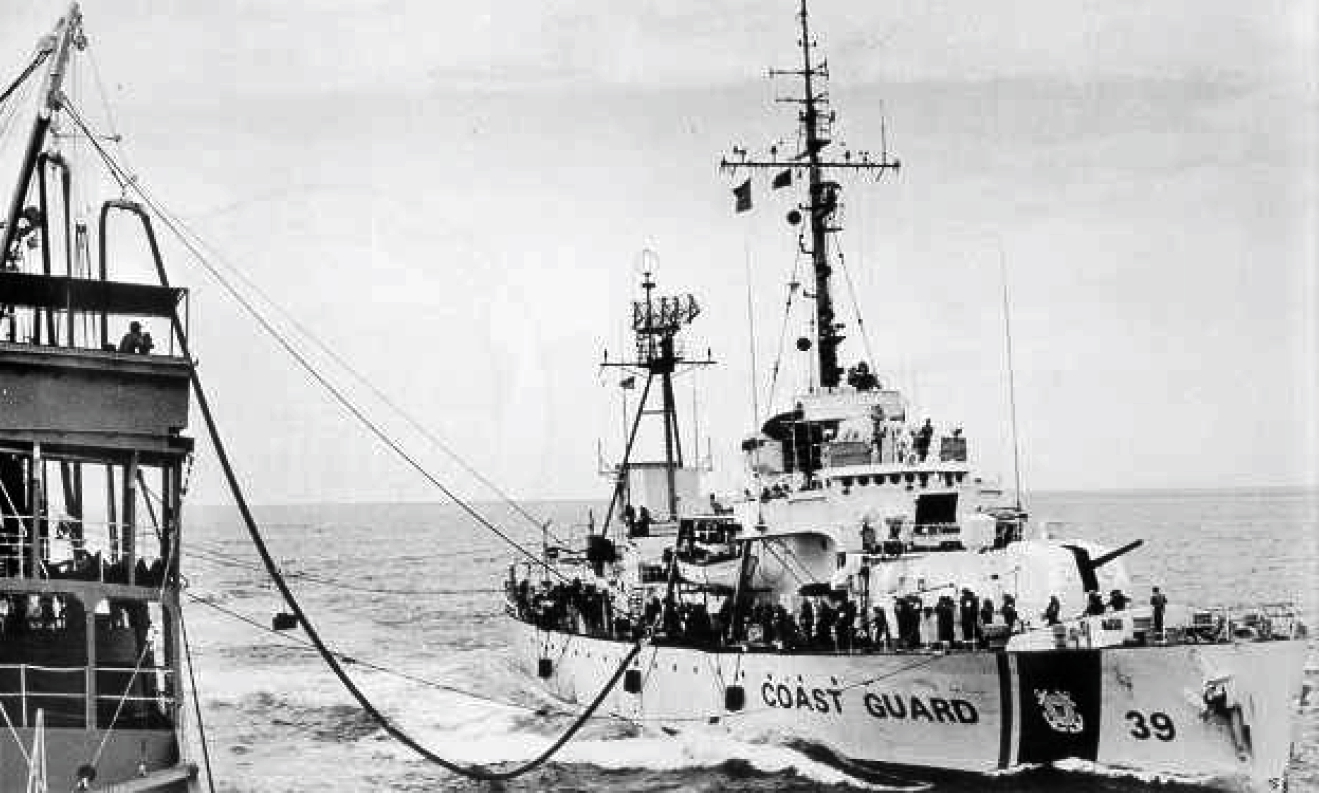 The U.S. Coast Guard cutter USCGC Owasco (WHEC-39) refuels from the U.S. fleet oiler USS Guadalupe (AO-32) during a Market Time patrol off Vietnam, in 1968-1969. Owasco was assigned to U.S. Coast Guard Squadron Three in South Vietnam.